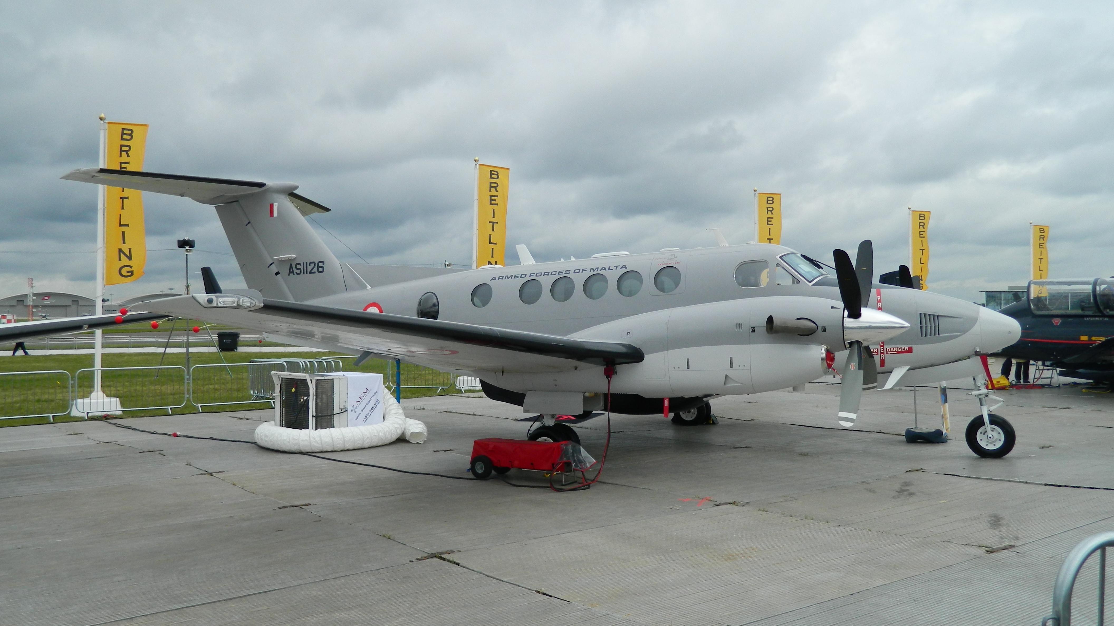 "AS1126" is a Beechcraft Super King Air of the Armed Forces of Malta, on display at the 2012 Farnborough International Airshow.